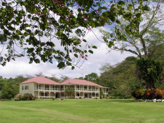 Original description was Photograph by --CloudSurfer